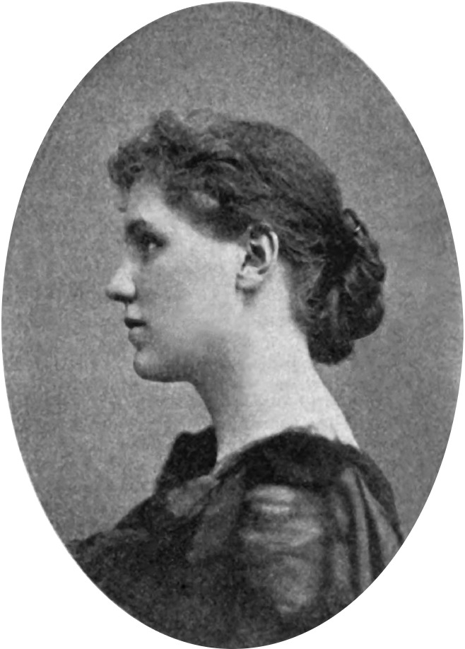 Varina Anne "Winnie" Davis, b. June 27, 1864; d. September 18, 1898, daughter of Jefferson Davis and Varina Davis known as "Daughter of the Confederacy", for her appearances with her father on behalf of Confederate veterans' groups.